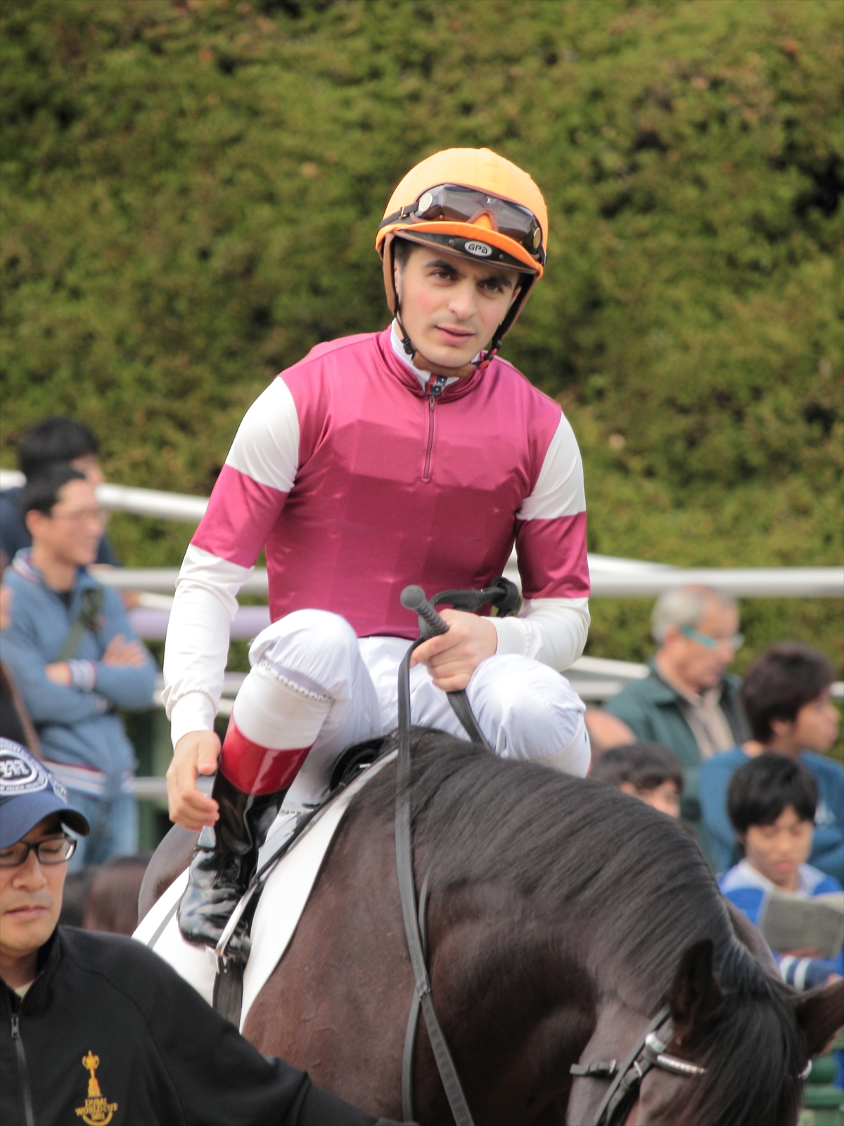 Andrea Atzeni from Kyoto Racecourse.